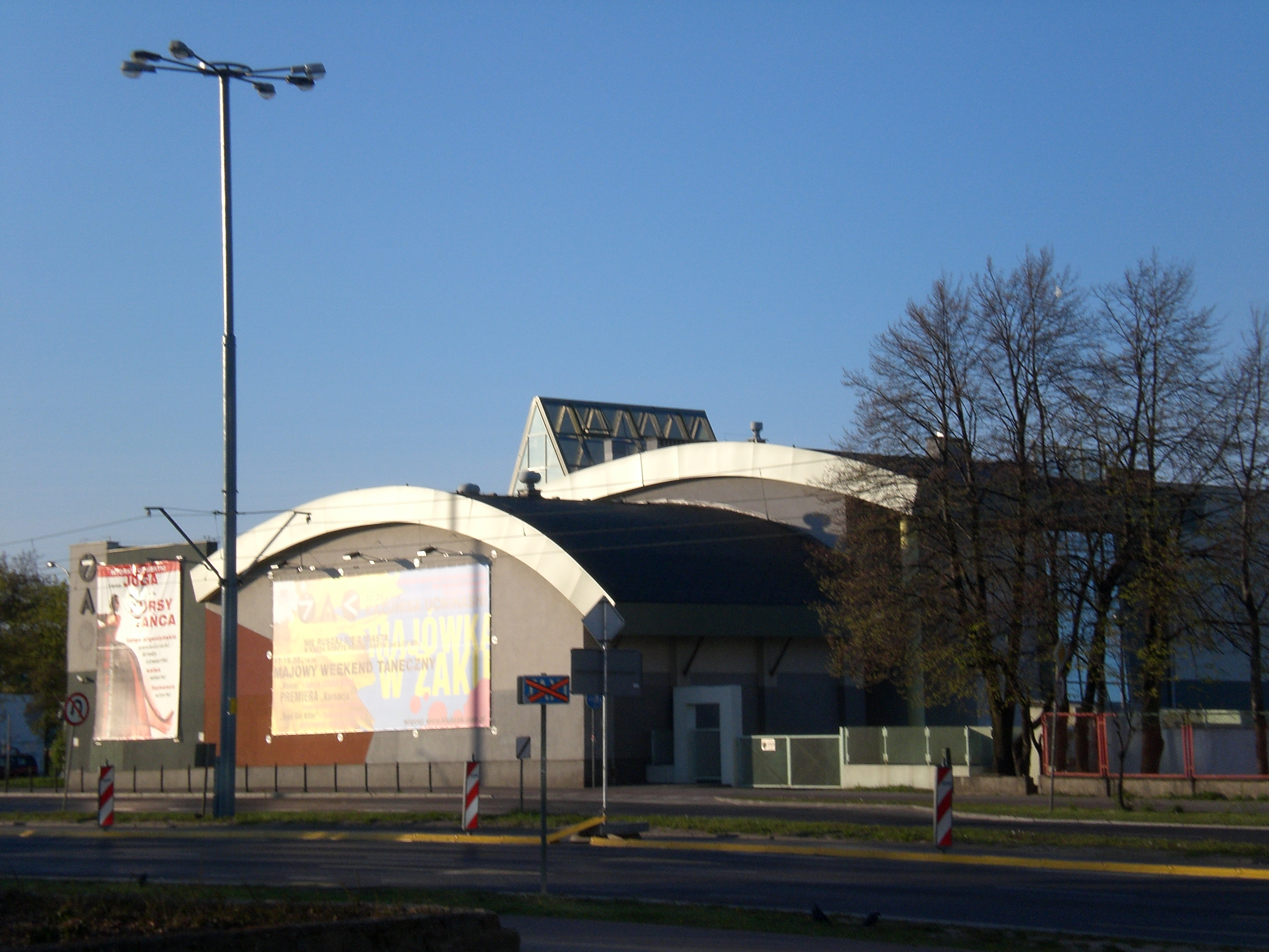 Cinema "Żak" in Gdańsk.